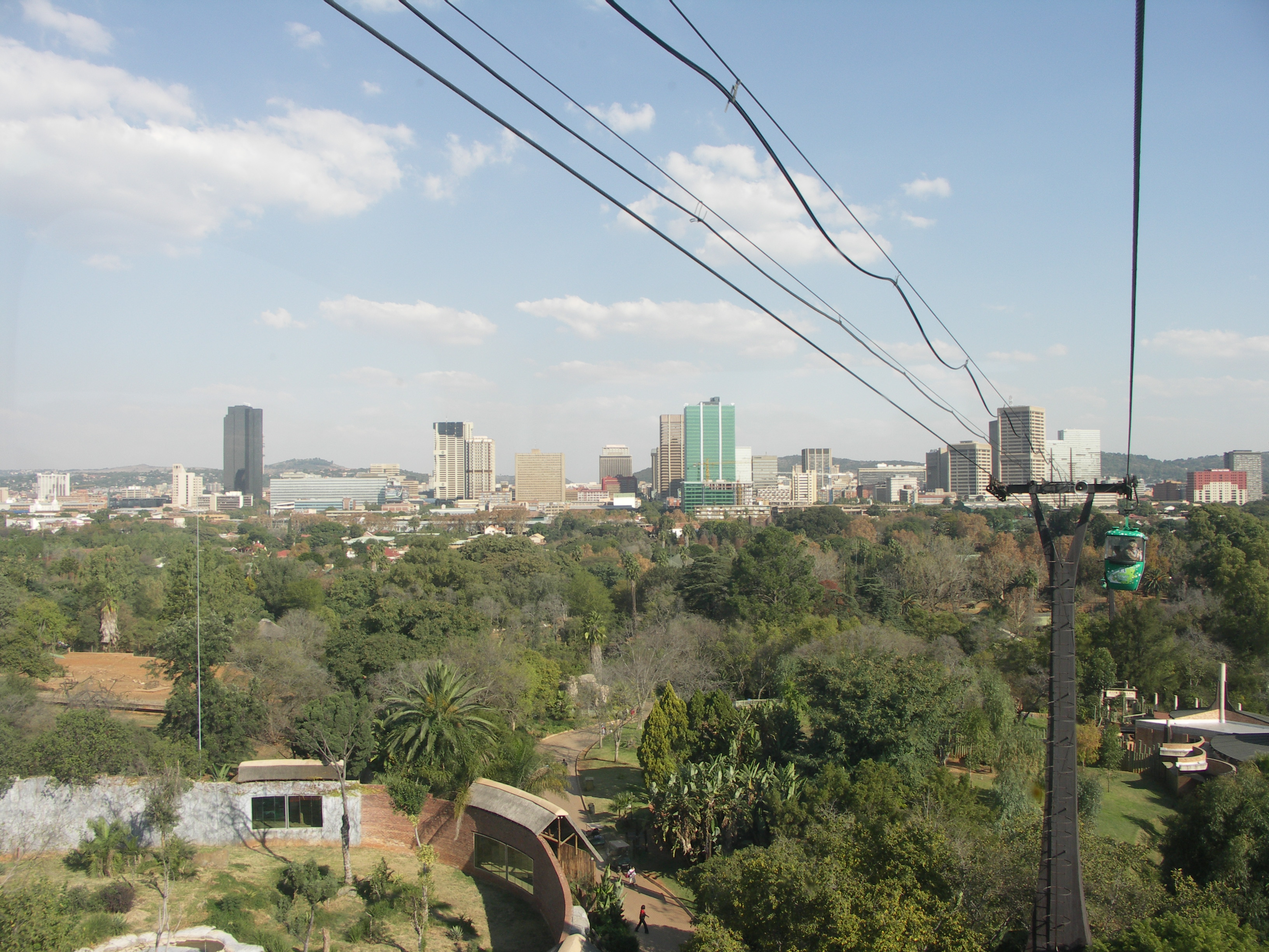 Cableway over the National Zoological Gardens of South Africa, South Africa